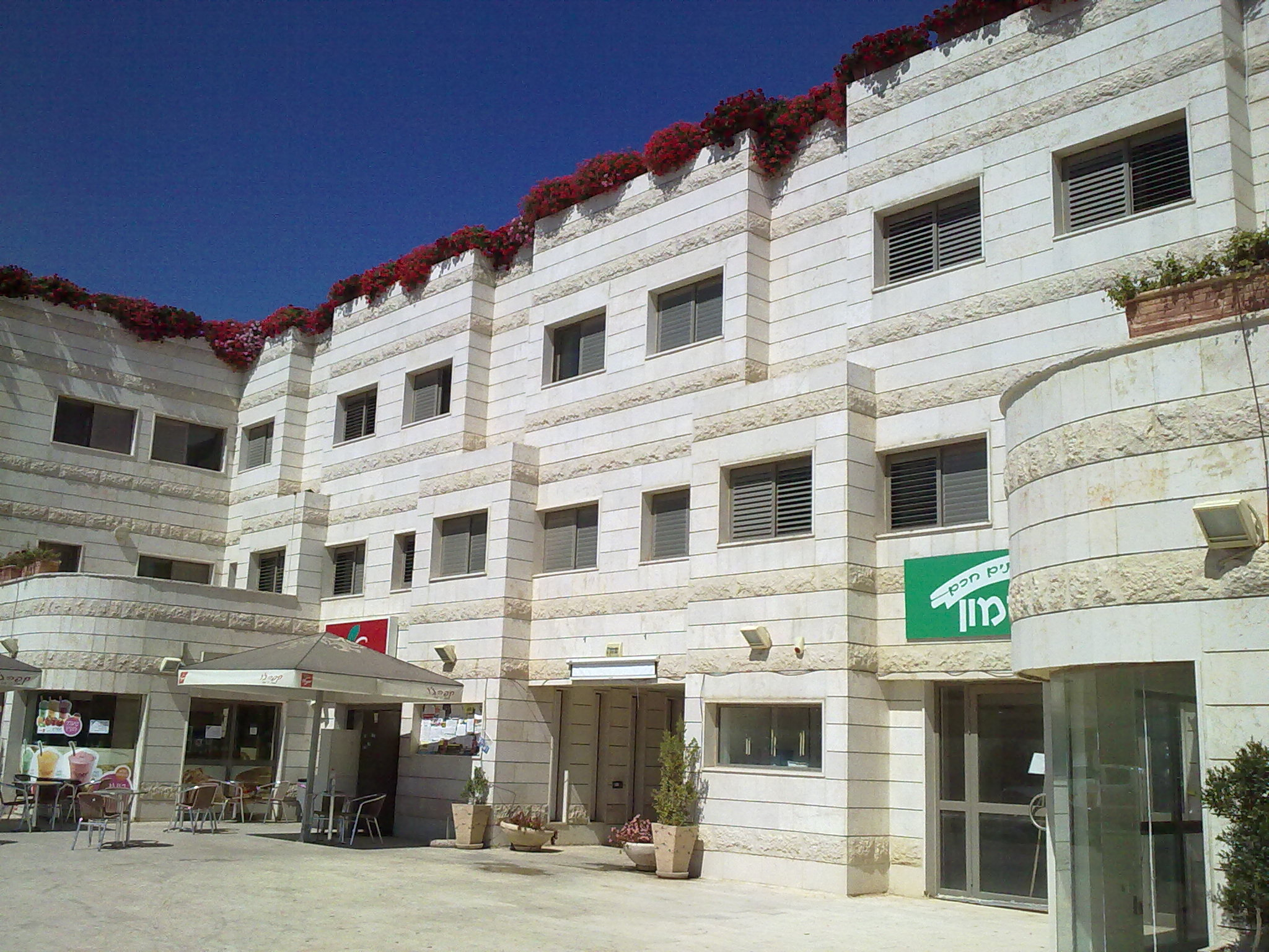 Students dormitory of Ariel University (Israel)